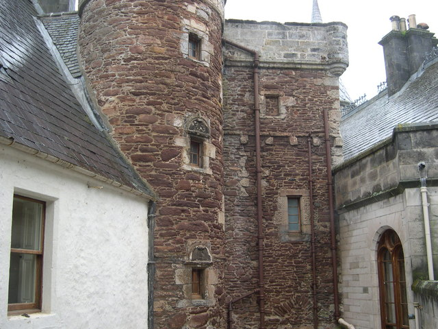 Old Dunrobin Castle This is the original castle possibly built in 1235. Now in the centre of today's much extended castle.